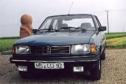 Peugeot 305 GLD, Series II